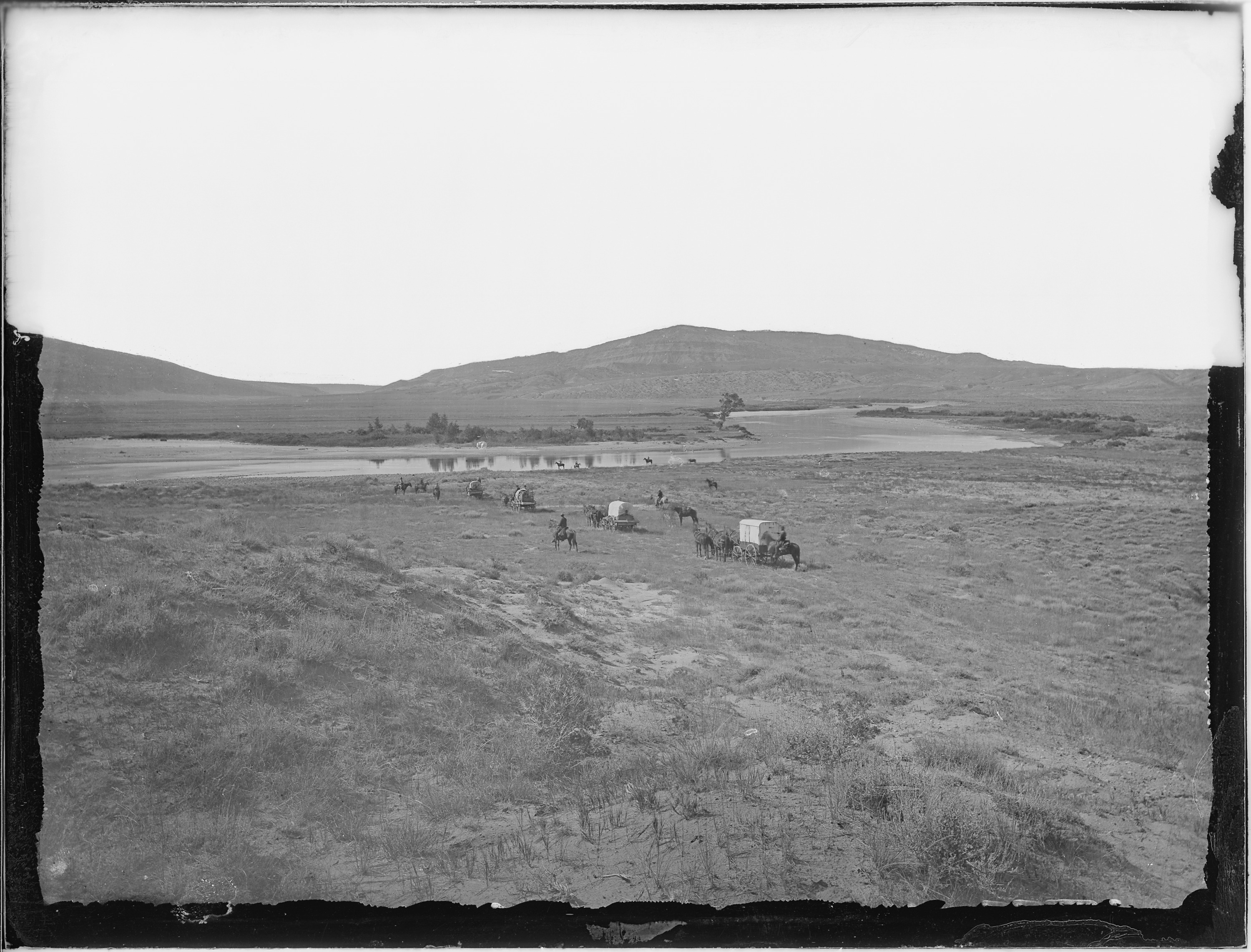 Scope and content: Original caption: View of the Red Buttes at what is now known as Bessemer Bend, a notable point of the old Oregon Trail where the Oregon Trail left the North Platte River for the Sweetwater. The approximate location of a massacre of 23 U.S. troopers in 1865, which occurred at the same time as the death of Caspar Collins at that bridge, for whom the town of Casper was named.